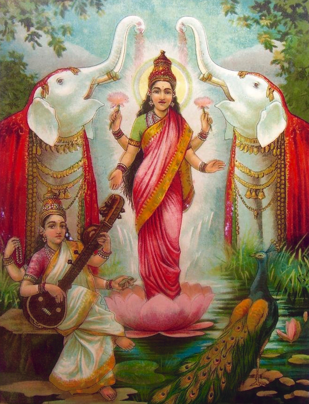 Lakshmi as "Gajalakshmi" is flanked by two elephants, and here she is joined by Sarasvati and her peacock; from the Ravi Varma Press, 1910's